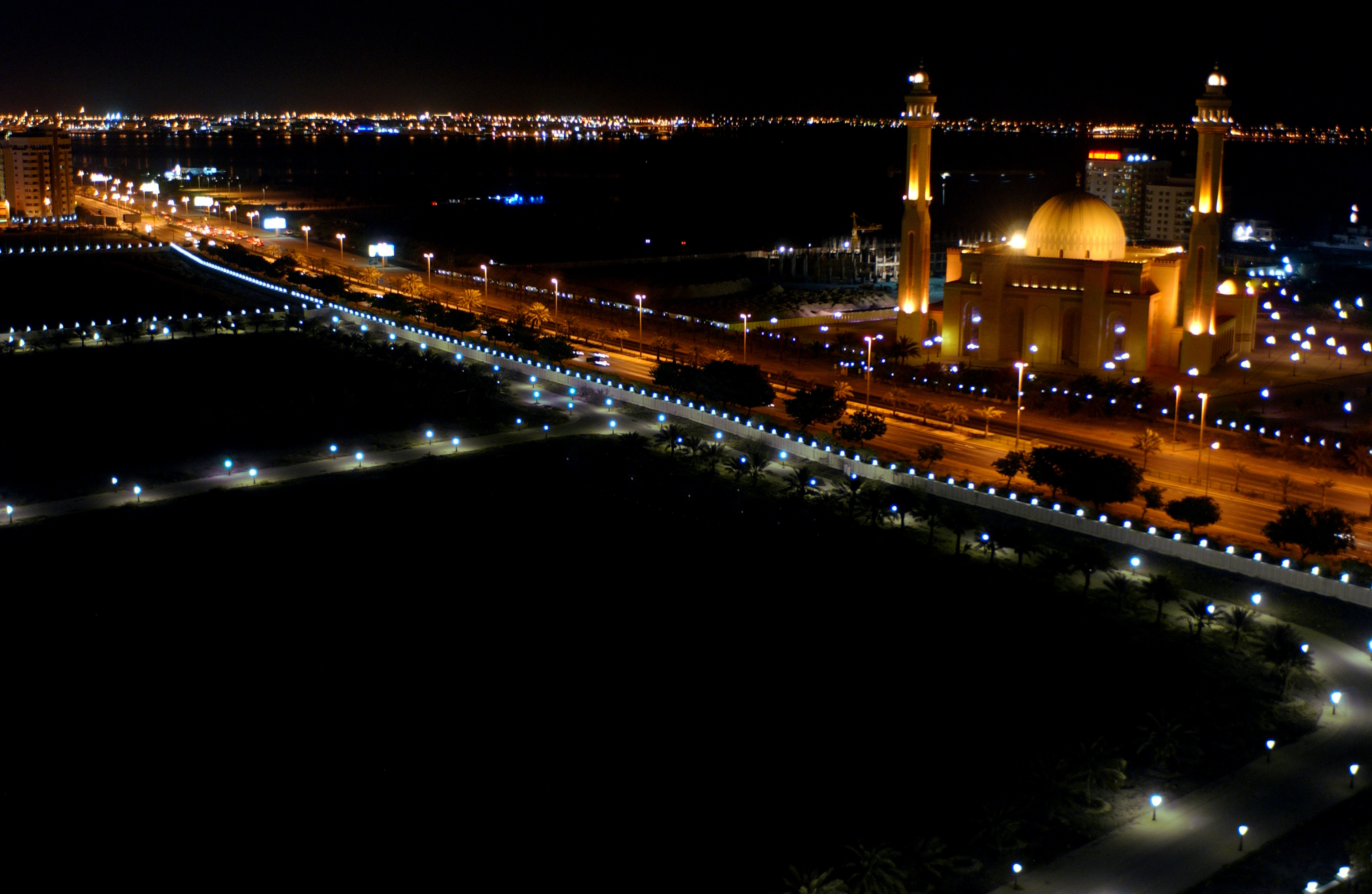 030901-N-6967M-037 The Grand Mosque is huge and is the most recognizable landmark in the Kingdom of Bahrain. (All Hands, September 2003, pg. 30) Photo by PH1 Shane T. McCoy. (RELEASED)